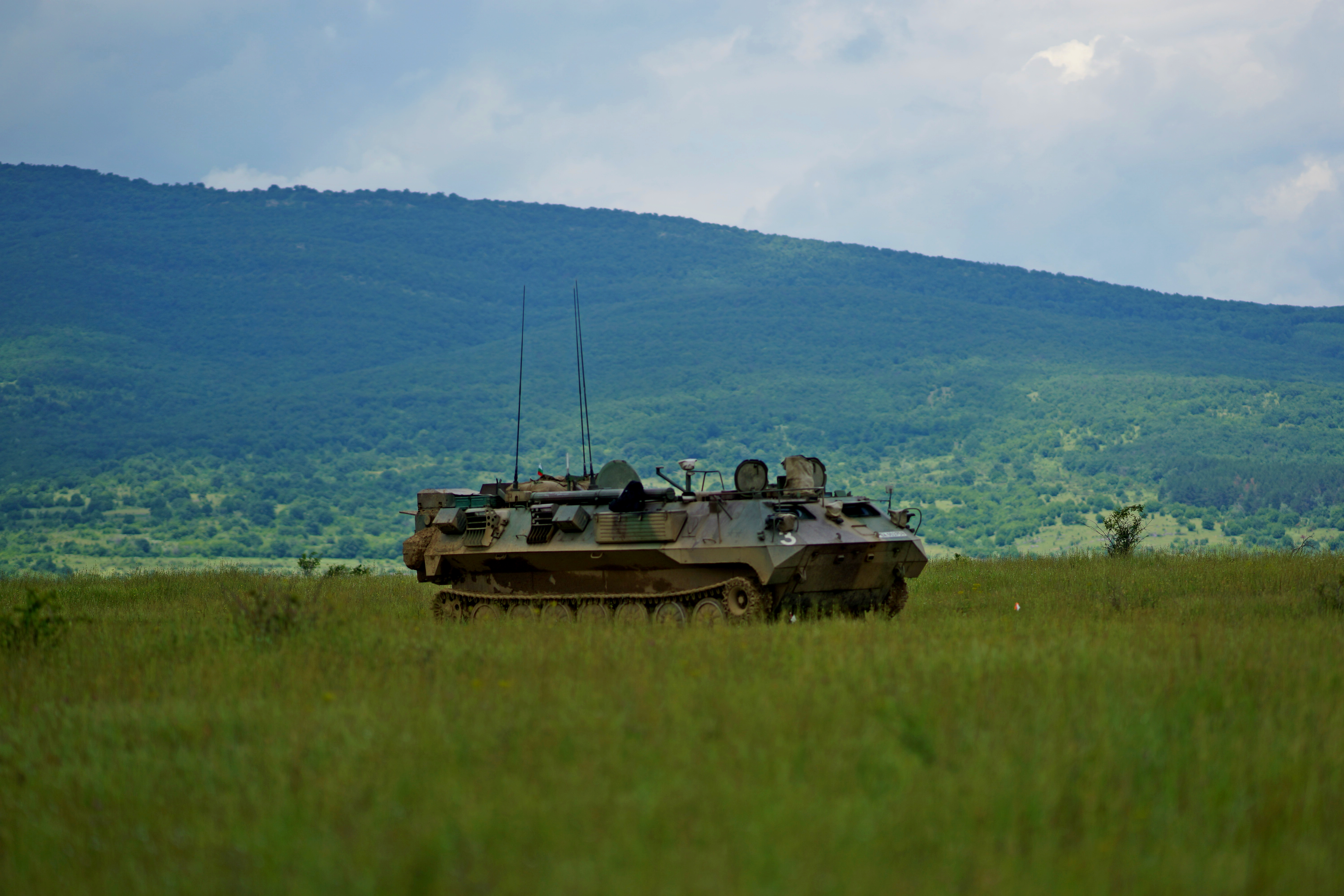 the novo selo training range